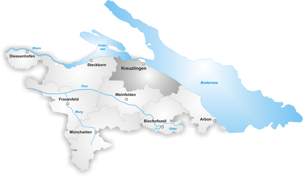 District Kreuzlingen